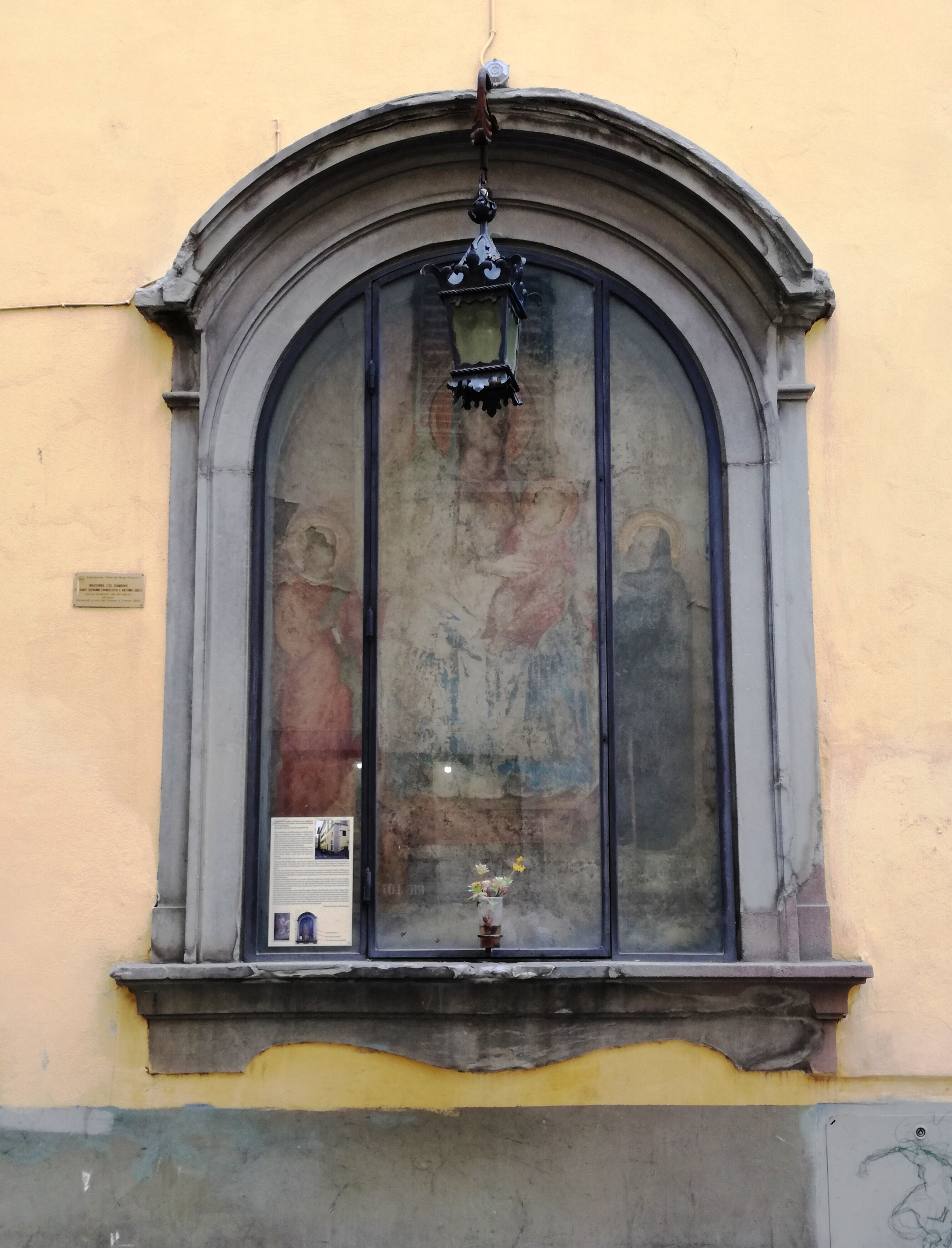 Tabernacolo con Madonna col Bambino, Sant'Antonio Abate e San Giovanni Evangelista di via del Porcellana